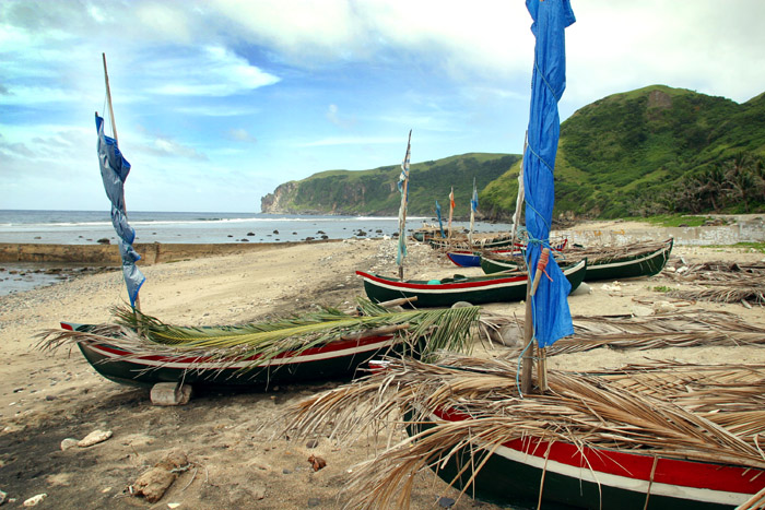 fisherman's village, Batanes, Philippines Tataya boats with sails furled and covered by palm leaves